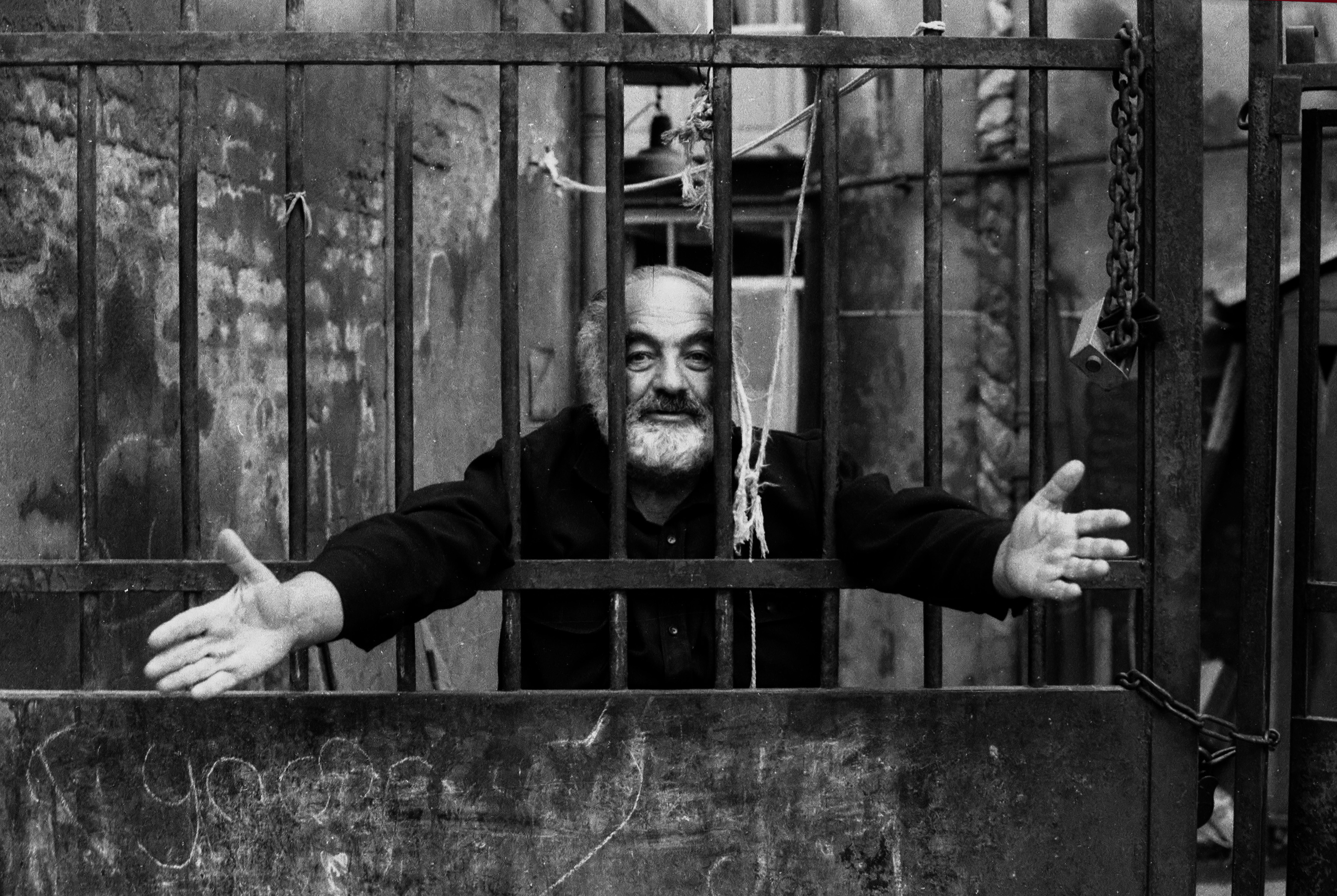 Sergei Parajanov. Foto Yuri Mechitov